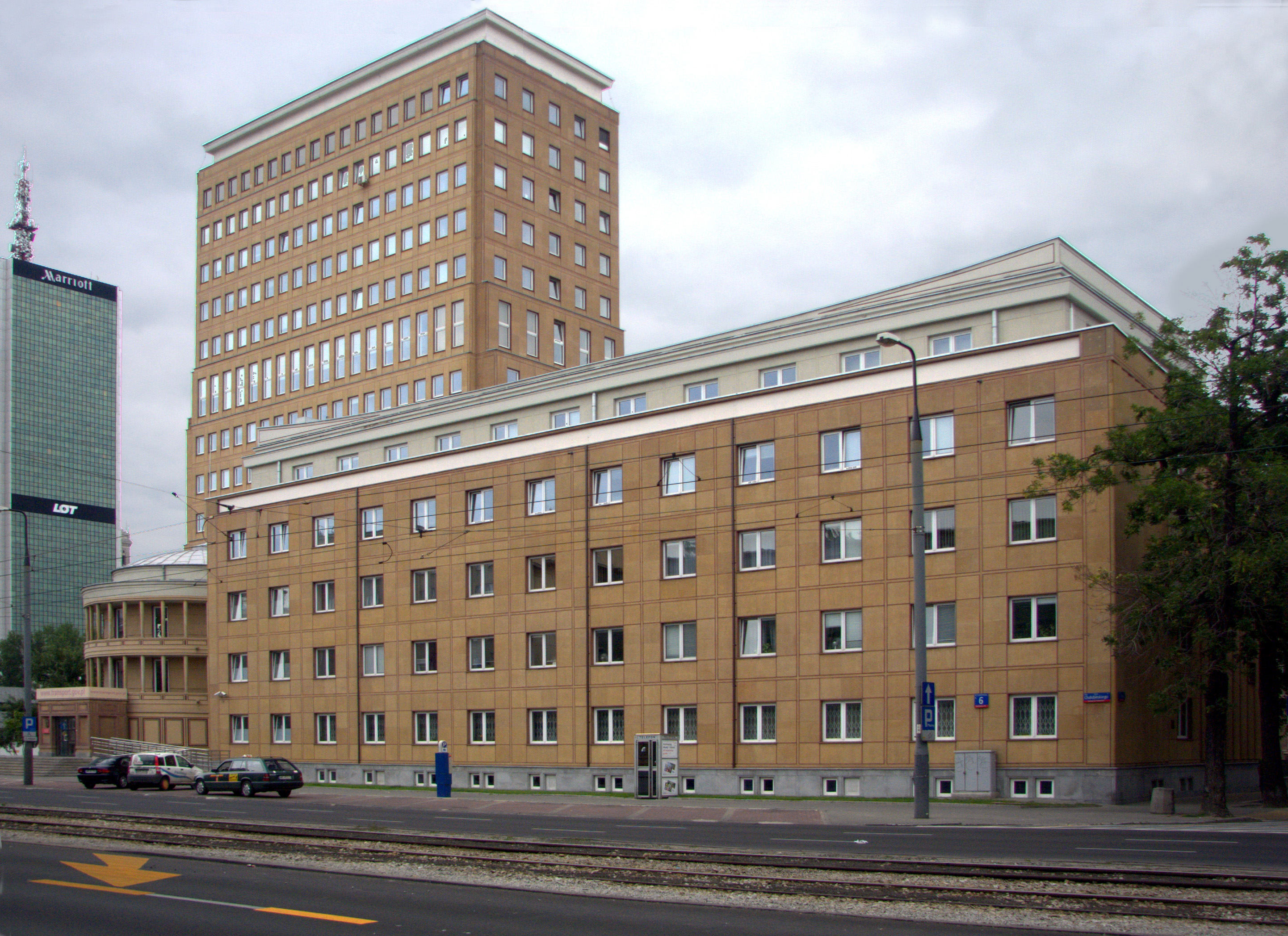 The ministry of Transport in Warsaw, Poland